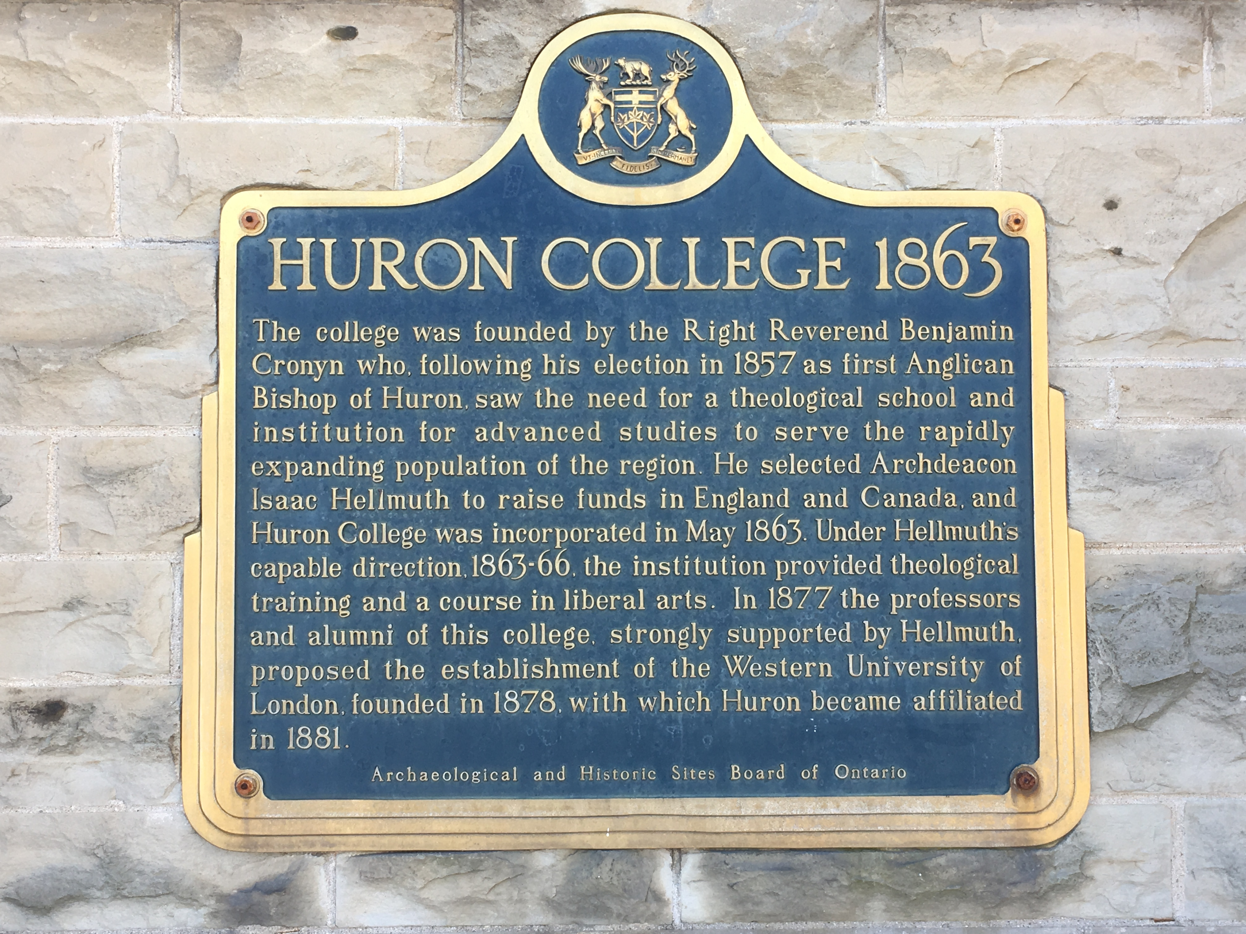 Historical plaque at Huron University College, University of Western Ontario, London, Ontario